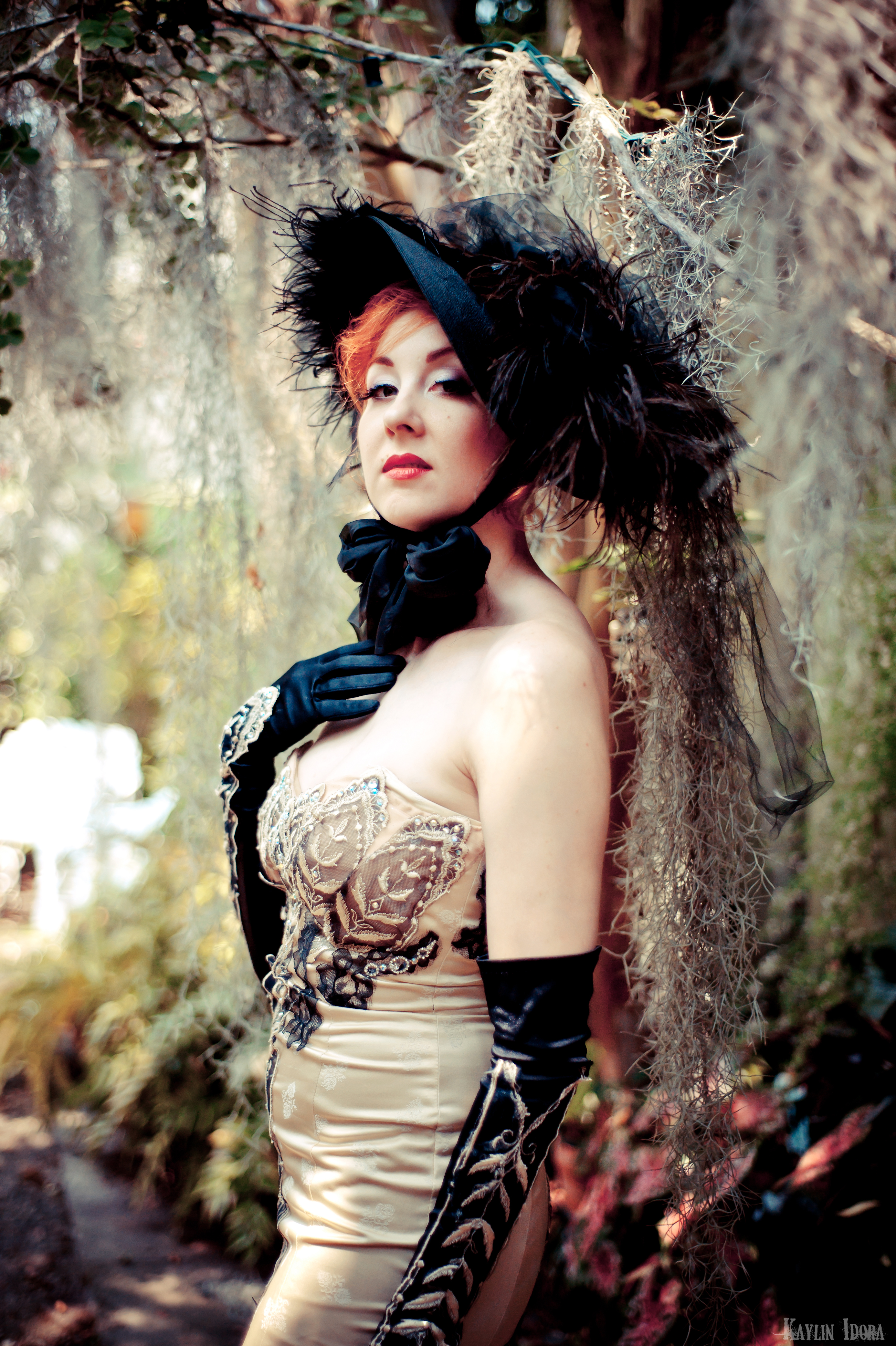 Women with hat and long gloves, New Orleans